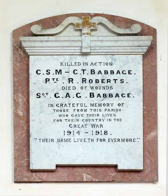 St Andrew & All Saints, Wicklewood, Norfolk - Wall monument